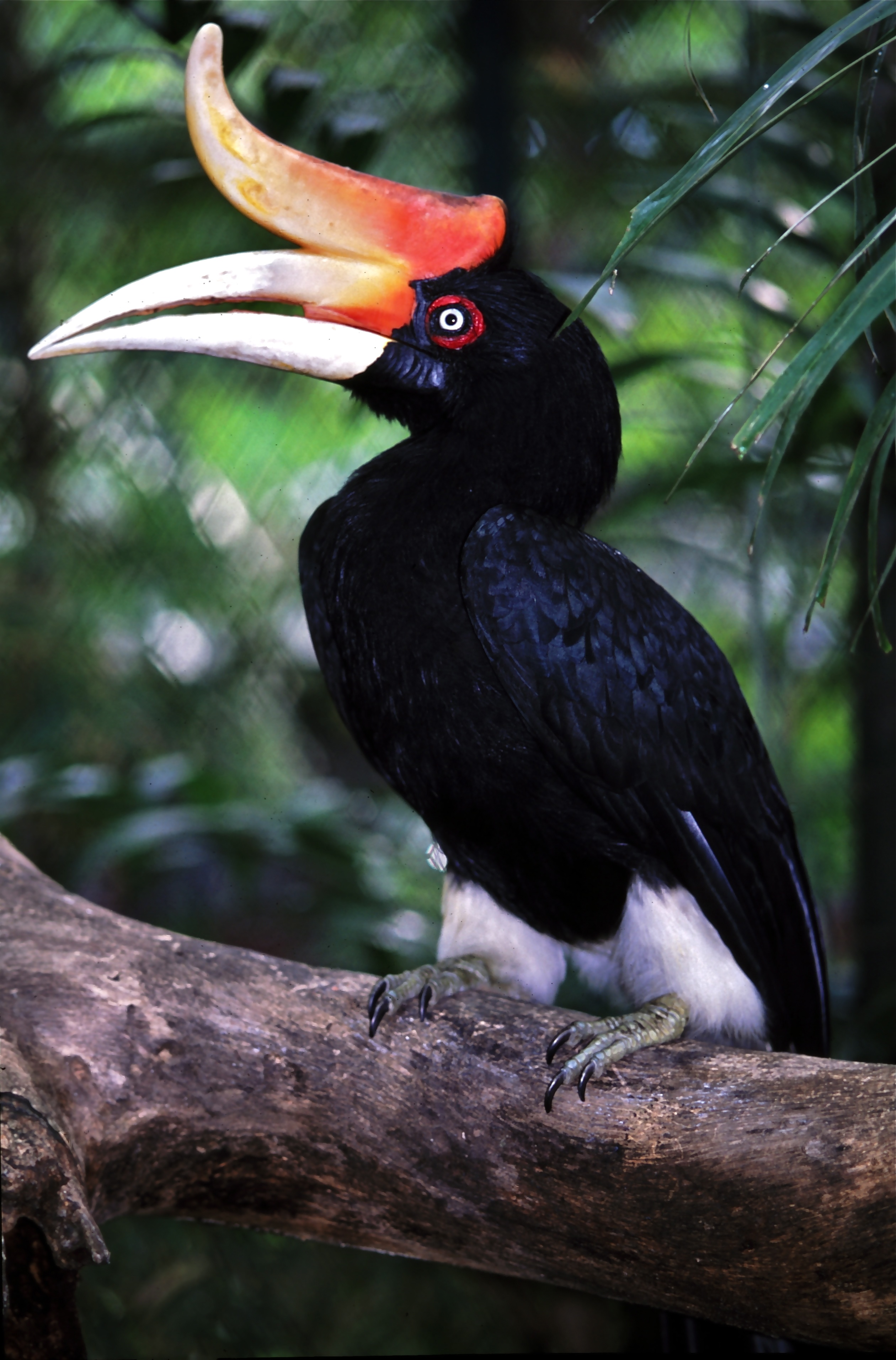 Zoo, Bangkok, THAILAND Scanned Slide from 2003